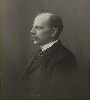 Dutch chess player Arnold van Foreest, around 1900